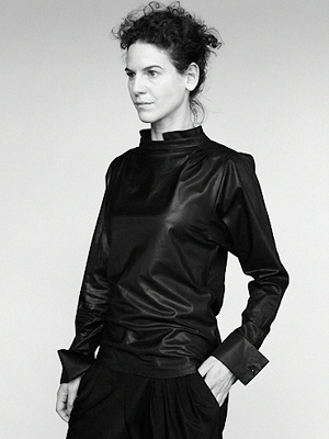 German actress Bibiana Beglau